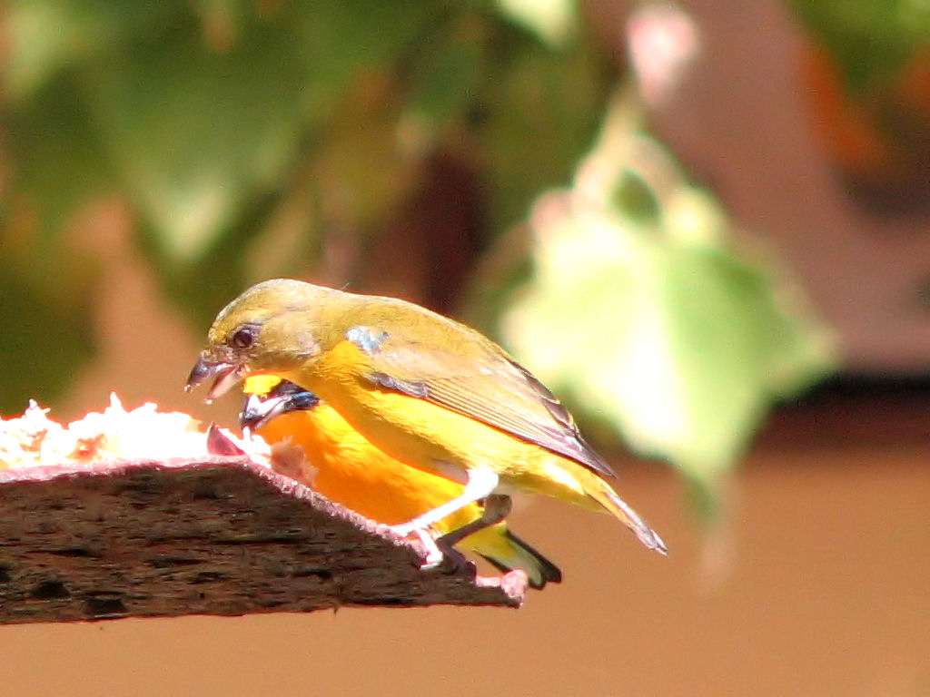 Yellow-throated Euphonia (Euphonia hirundinacea), female, taken in Santa Elena, Costa Rica